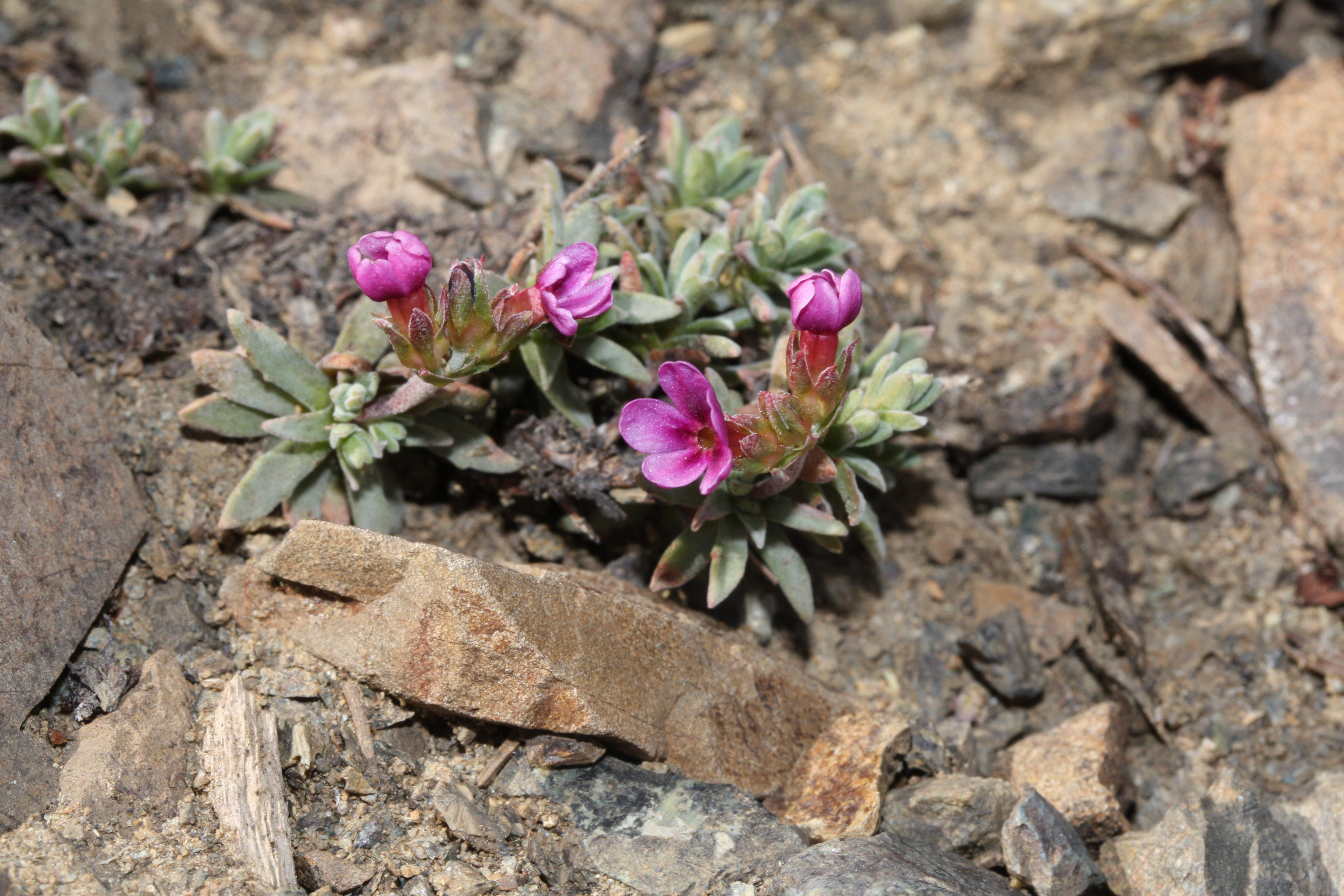 Snow Dwarf-primrose, Snow Douglasia